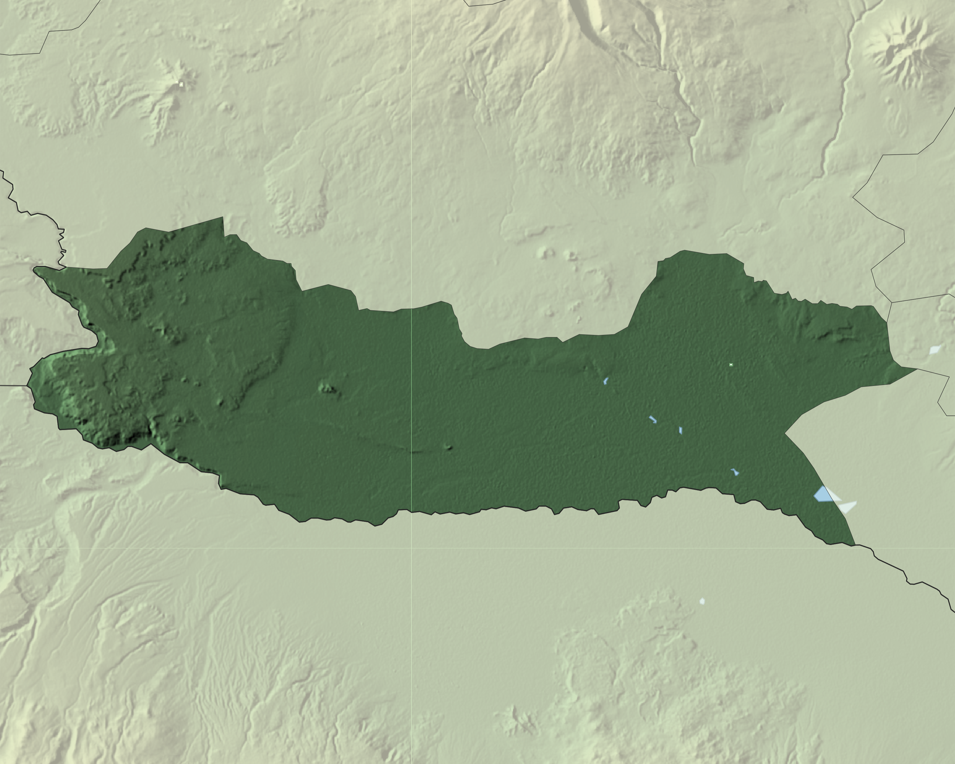 Hillshaded map of Armavir province of Armenia